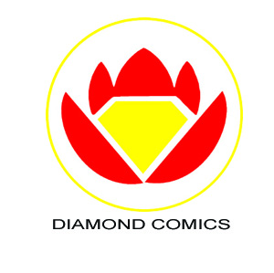 Company Logo